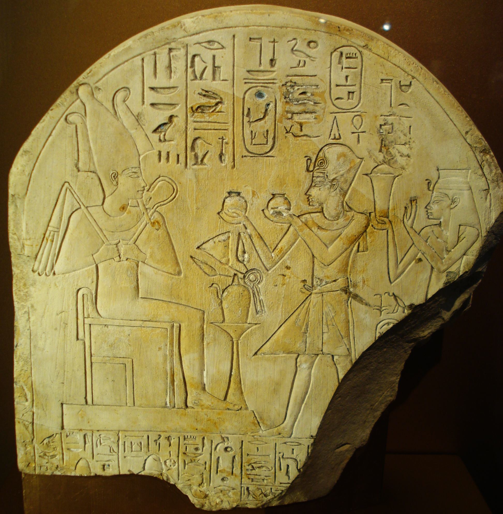 Posthumous stele of Amenhotep I and Ahmose-Nofretary making an offering to Osiris. Limestone. New Kingdom, Dynasty XVIII, reign of Amenhotep III, c. 1390-1352 BC. Probably from Thebes.